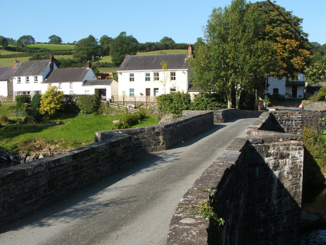 Bridge over Afon Cothi at Abergorlech Abergorlech bridge in September 2008